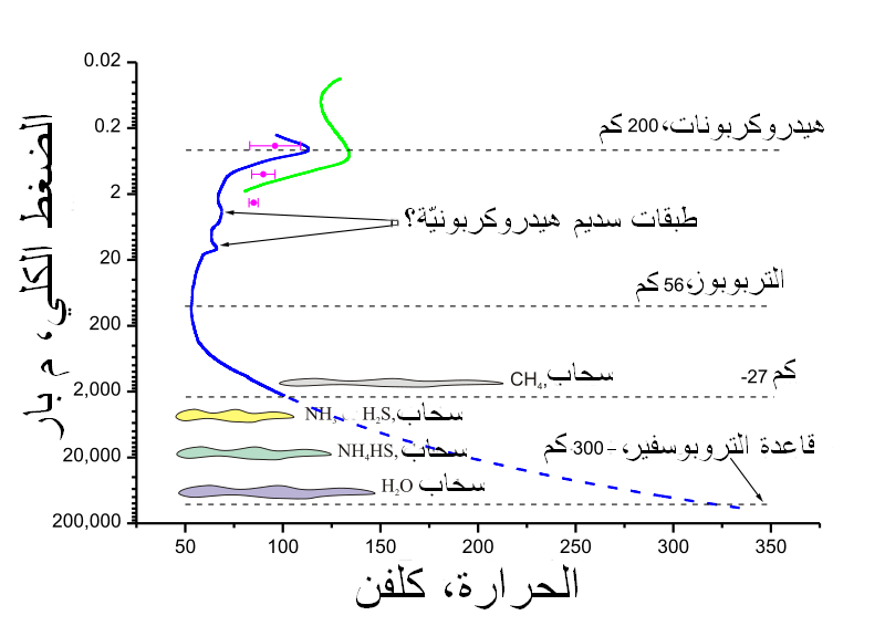 This graph shows temperature profile in the troposphere and in the lower stratosphere of Uranus. Heights are also indicated. *The blue curve is from Lindal et al.[1]. *The green curve is from Bishop et al.[2] *The dashed blue curve is an extrapolation of the 1987 Lindal et al. data[1] using a constant lapse rate of 0.82 K/km. *The filled pink circles with error bars are temperatures from West et al.[3] *The graph also shows locations of the main cloud and haze layers according to 1990 Bishop et al.[2], Atreya et al.[4] and dePater et al. [5] ===References=== ↑ a b Lindal, G.F., Lyons, J.R., Sweetnam, D.N., Eshleman, V.R., Hinson, D.P., Tyler, G.L., 1987. The atmosphere of Uranus: Results of radio occultation measurements with Voyager 2. J. Geophys. Res. 92, 14987–€“15001 (Table 1); ↑ a b Bishop, J.; Atreya, S.K.; Herbert, F.; and Romani, P. (1990). "Reanalysis of Voyager 2 UVS Occultations at Uranus: Hydrocarbon Mixing Ratios in the Equatorial Stratosphere", Icarus 88: 448–463 (Table 1). ↑ West, R. A.; Lane, A. L.; Nelson, R. M.; Wallis, B. D.; Hord, C. W.; Esposito, L. W.; Simmons, K. E. (1987). "Temperature and Aerosol Structure of the Nightside Uranian Stratosphere from Voyager 2 Photopolarimeter Stellar Occultation Measurements", JOURNAL OF GEOPHYSICAL RESEARCH 92: 15,030–€“36. ↑ Atreya, S.; Egeler, P.; Baines, K. (2006). "Water-ammonia ionic ocean on Uranus and Neptune?", Geophysical Research Abstracts 8: 05179 ↑ dePater, Imke; Romani, Paul N.; Atreya, Sushil K. (1991). "Possible Microwave Absorbtion in by H2S gas Uranusâ€™ and Neptuneâ€™s Atmospheres", Icarus 91: 220â€“233.